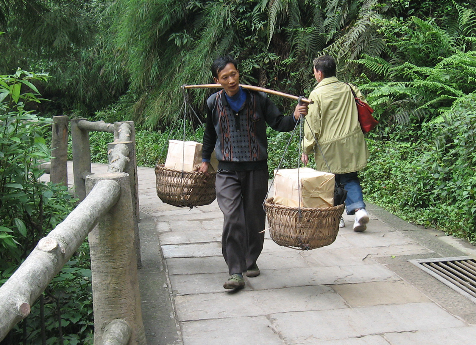 Chinese man carrying a Yoke